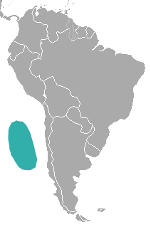 Juan Fernández Fur Seal (Arctocephalus philippii) range